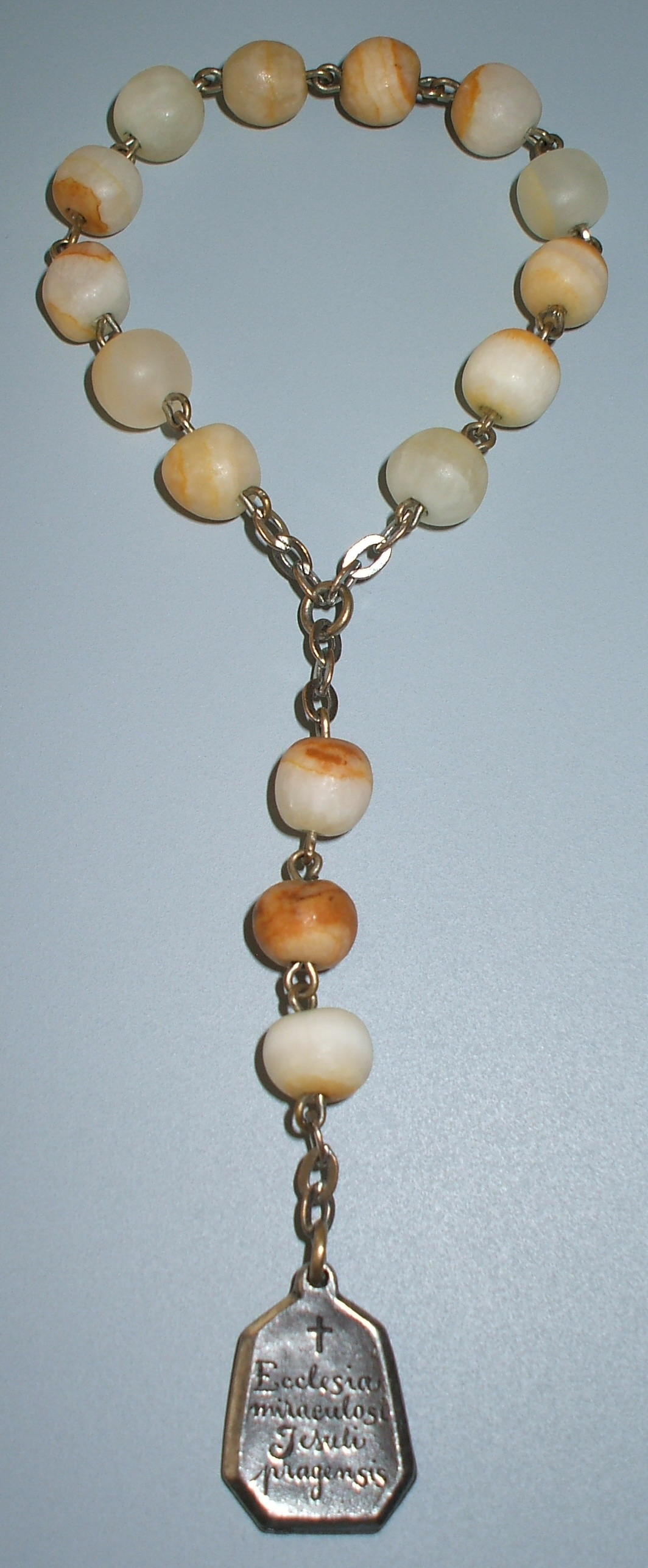 Chaplet to the Child Jesus from Prague